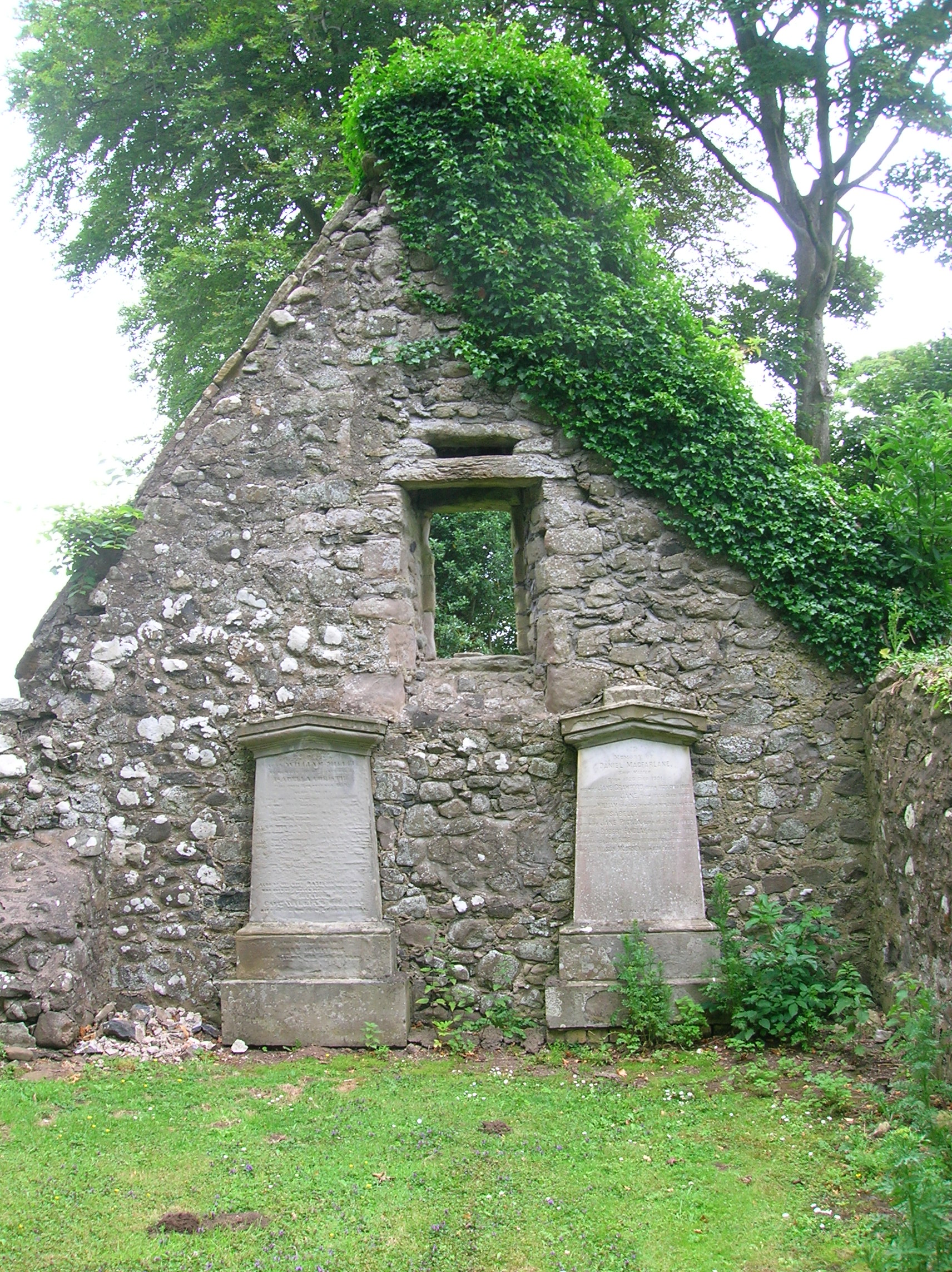 Inside gable end, Crosbie Church, Fullarton, South Ayrshire, Scotland.